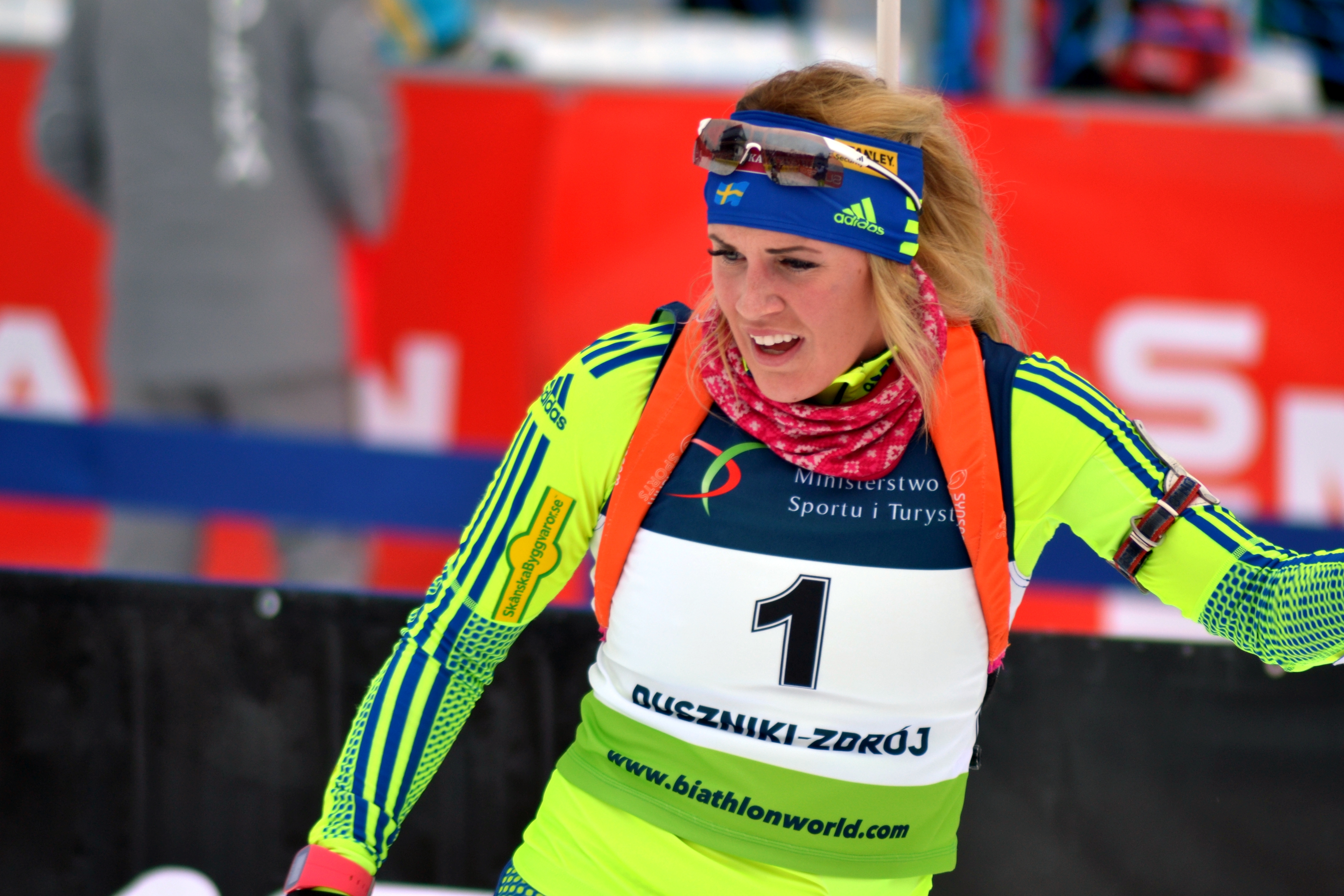 Open European Championships Biathlon 2017, Individual Women's race, held on January 25th.